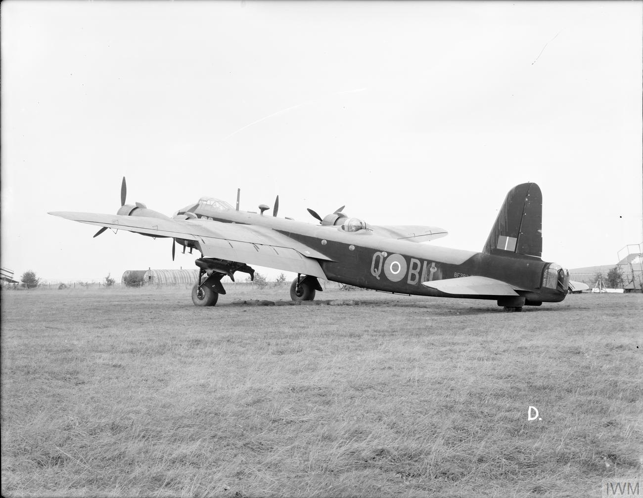 Stirling Mark I, BF382 'BU-Q', of No. 214 Squadron RAF on the ground at RAF Stradishall, Suffolk, at the end of its operational service.